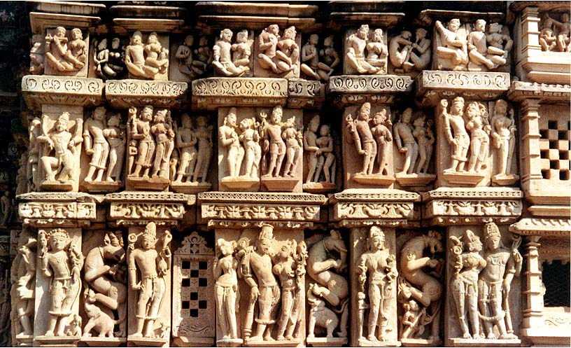 South Wall, Parshvanatha Temple. Jain complex, Khajuraho This Chandella-period (mid-tenth century) Jain temple is dedicated to the 23d tirthankara (savior) Parshvanath, the predecessor of Mahavira. The wall sculpture contains much Hindu, as well as Jain, imagery.